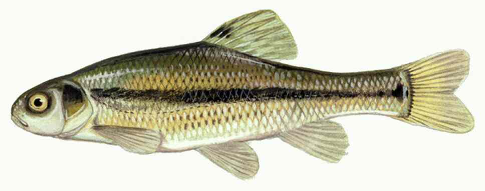 Fathead minnow, (Pimephales promelas), taken from USFWS website -- stated there to be PD